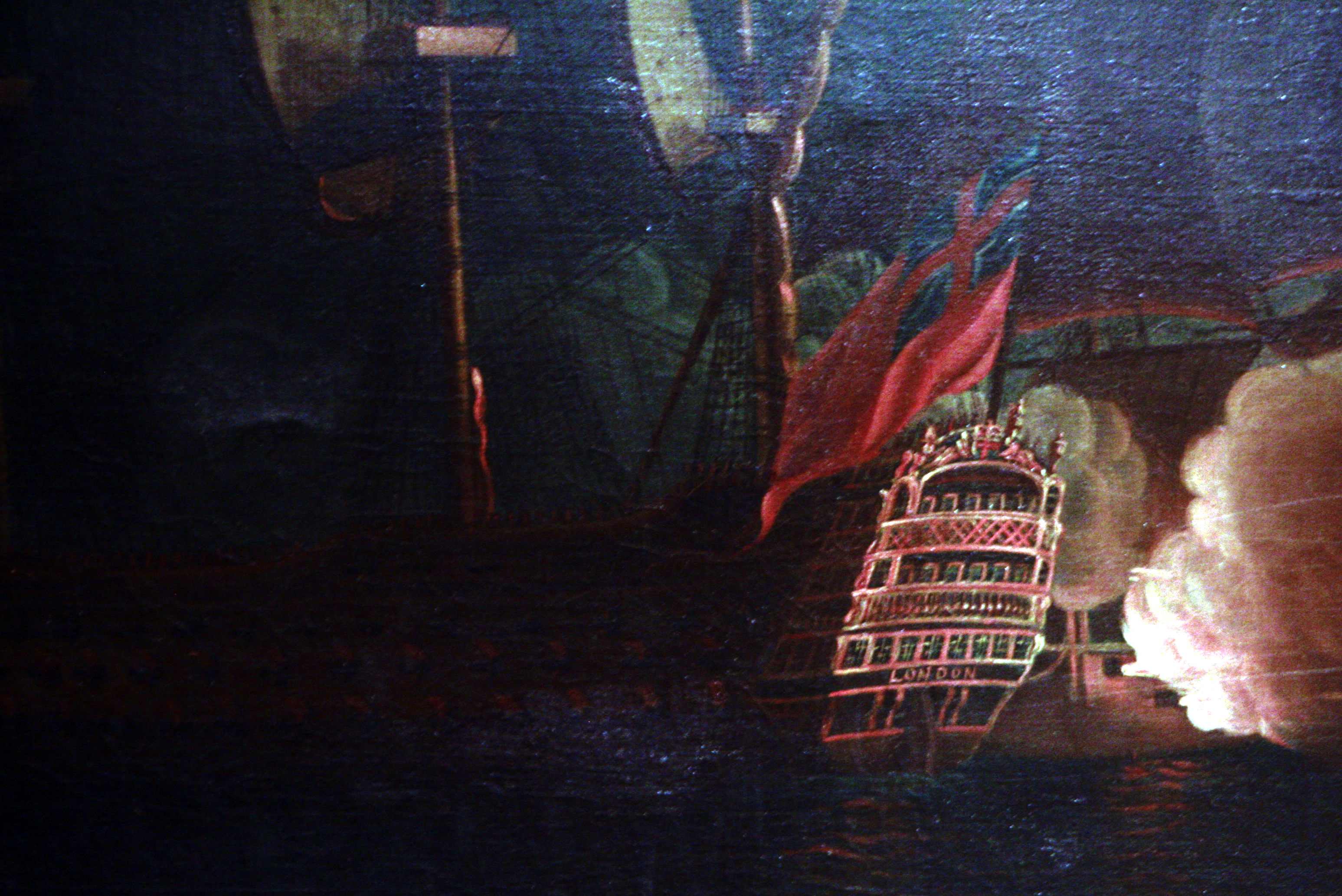 Action of 18 October 1782 between the 74-gun Scipion and the 90-gun HMS London. Oil on canvas, 18th century On display at Toulon naval museum. Access number 3 OA 54.